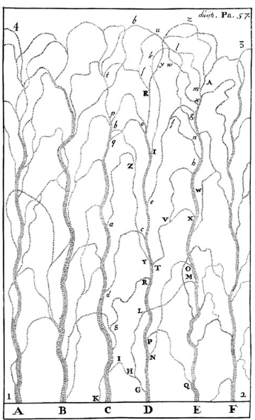 Leeuwenhoek's description of capillary